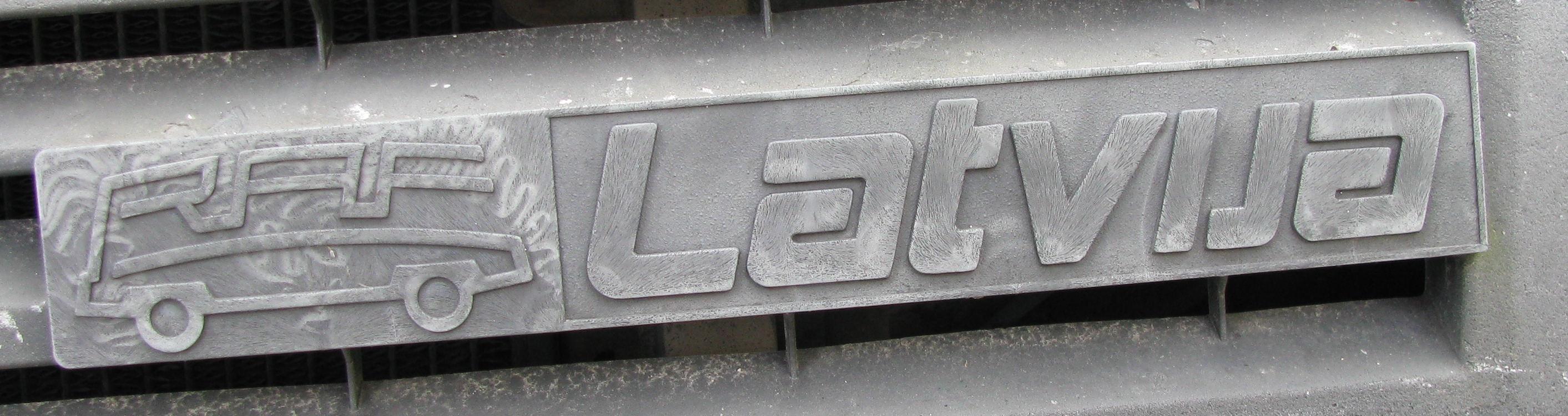 RAF 2203 in Moscow